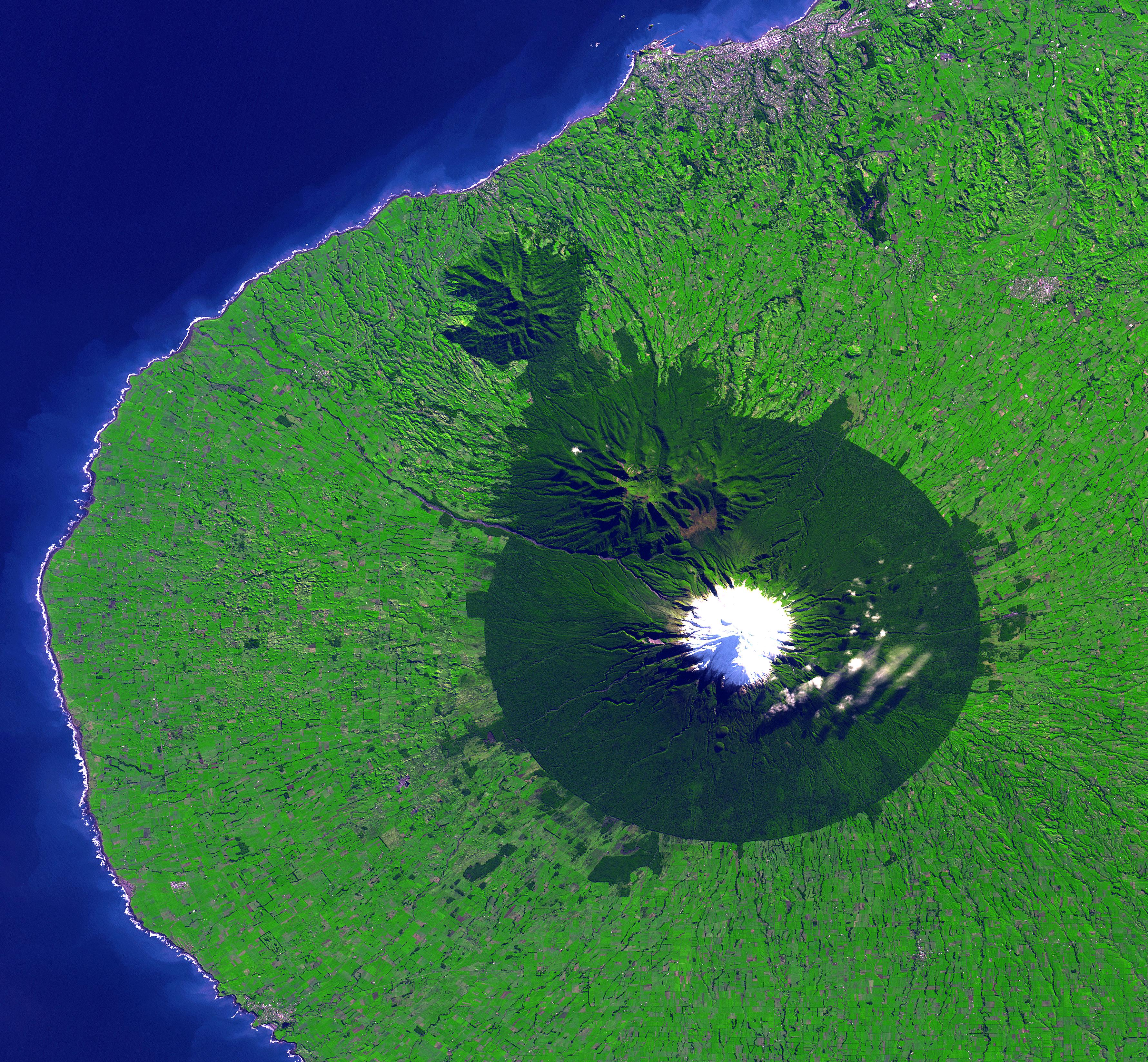 Credits: NASA/GSFC/MITI/ERSDAC/JAROS, and U.S./Japan ASTER Science Team ”The purpose of NASA's Earth Observatory is to provide a freely-accessible publication on the Internet where the public can obtain new satellite imagery and scientific information about our home planet. The focus is on Earth's climate and environmental change. In particular, we hope our site is useful to public media and educators. Any and all materials published on the Earth Observatory are freely available for re-publication or re-use, except where copyright is indicated. We ask that NASA's Earth Observatory be given credit for its original materials.” Category:Volcanoes of New Zealand